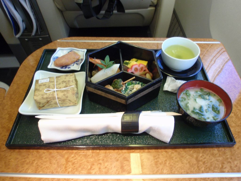 Airline Meals of Japan Air Lines "Domestic First Class"